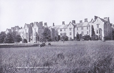 Photograph of Killkenny Asylum